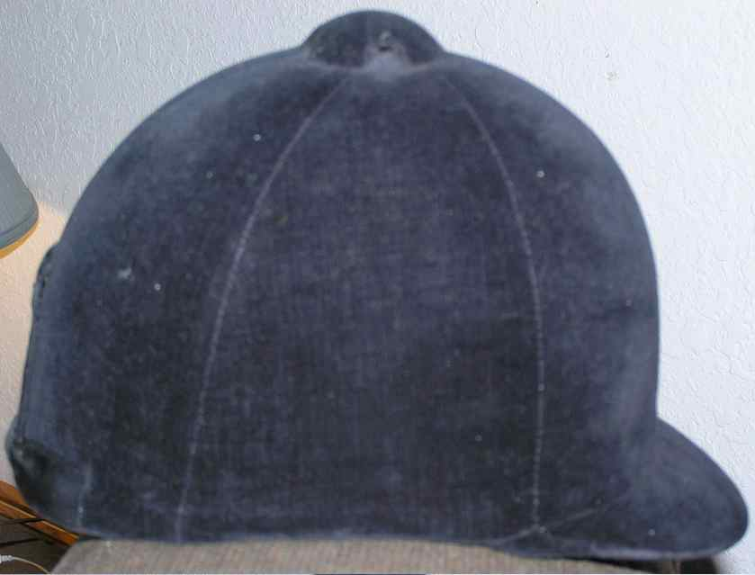 Older Riding cap, not a helmet, not approved safety headgear